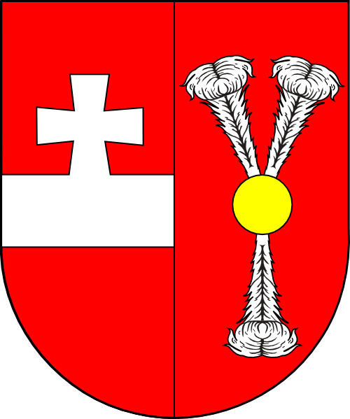 Coat of arms (shield only) of Franz Anton von Harrach, bishop of Vienna (1702 - 1705), archbishop of Salzburg, Austria (1709 - 1727). Arms used in Vienna.